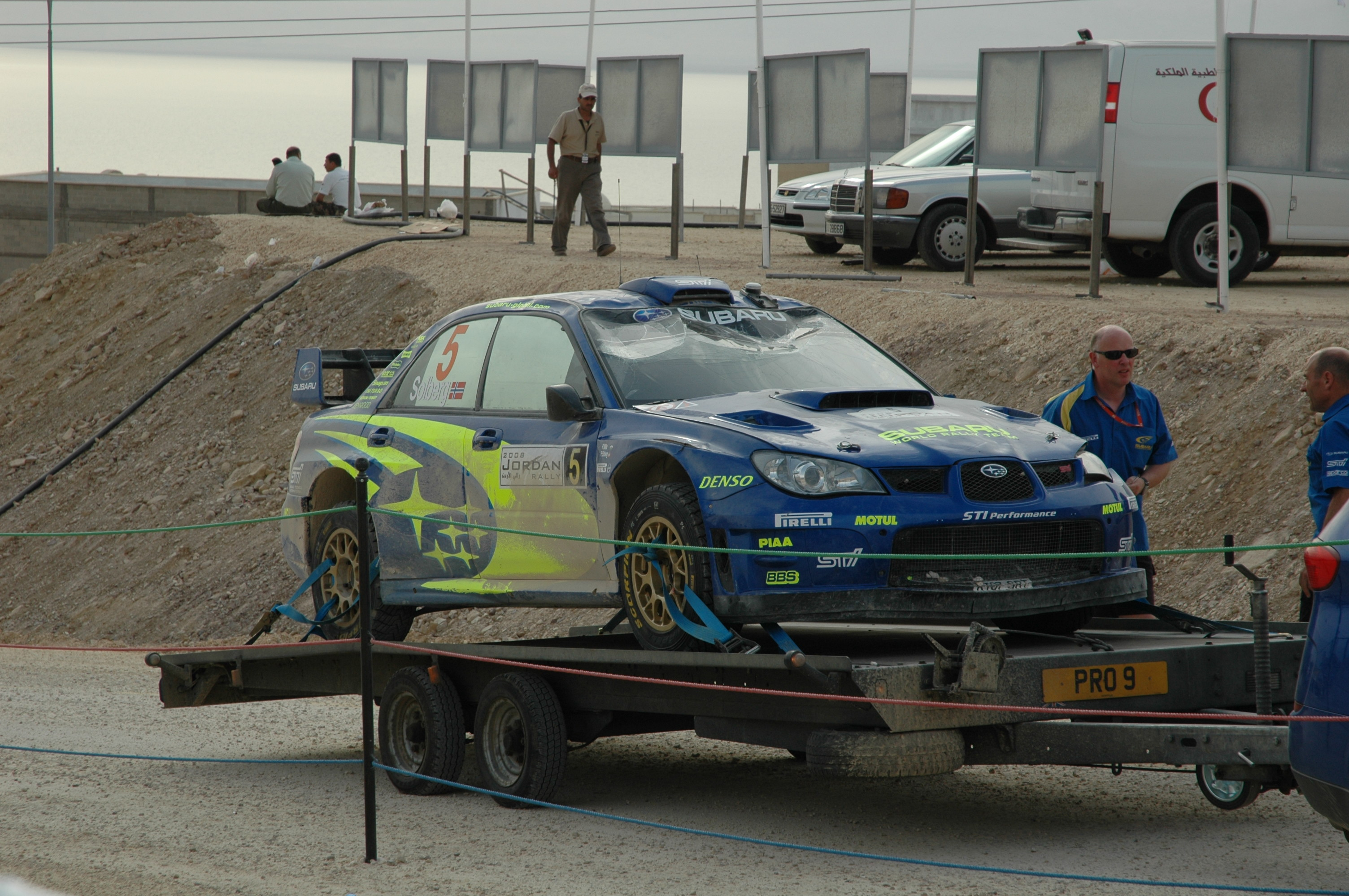 Petter Solberg's crashed out Subaru Impreza WRC2007 during the 2008 Jordan Rally.